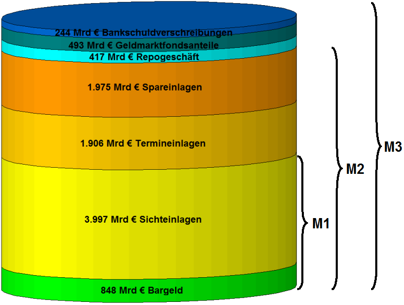 Money supply Euro in March 2012